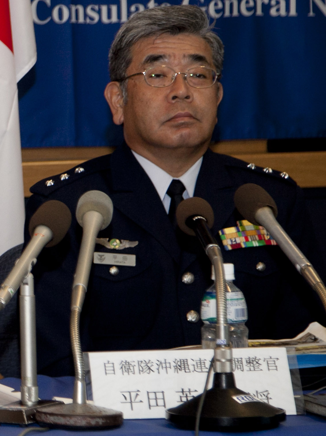 Lieutenant General Hidetoshi Hirata, Liaison and Coordination Officer of the Japanese Self Defense Forces in Okinawa.